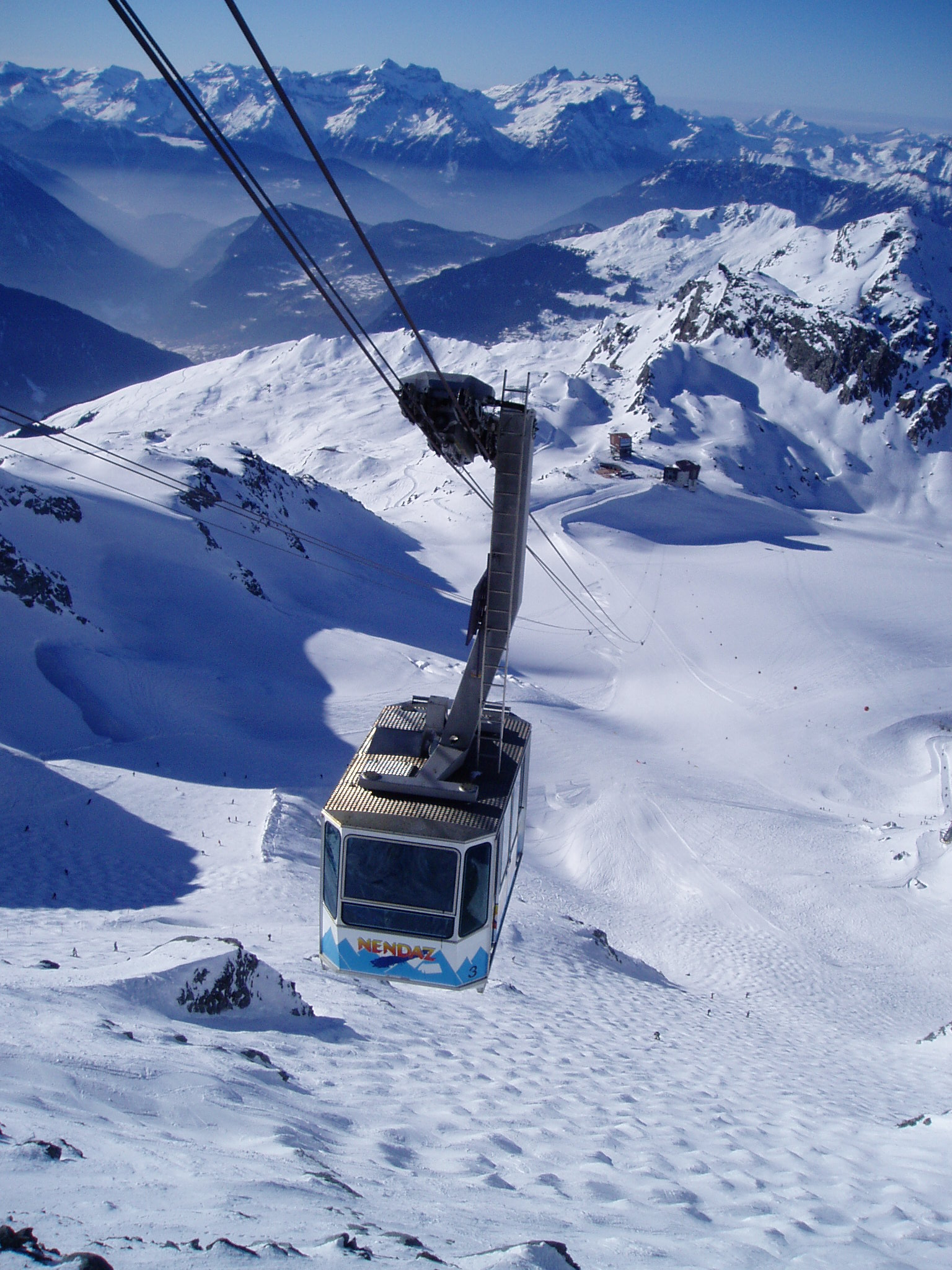 Cableway in Verbier, canton Valais